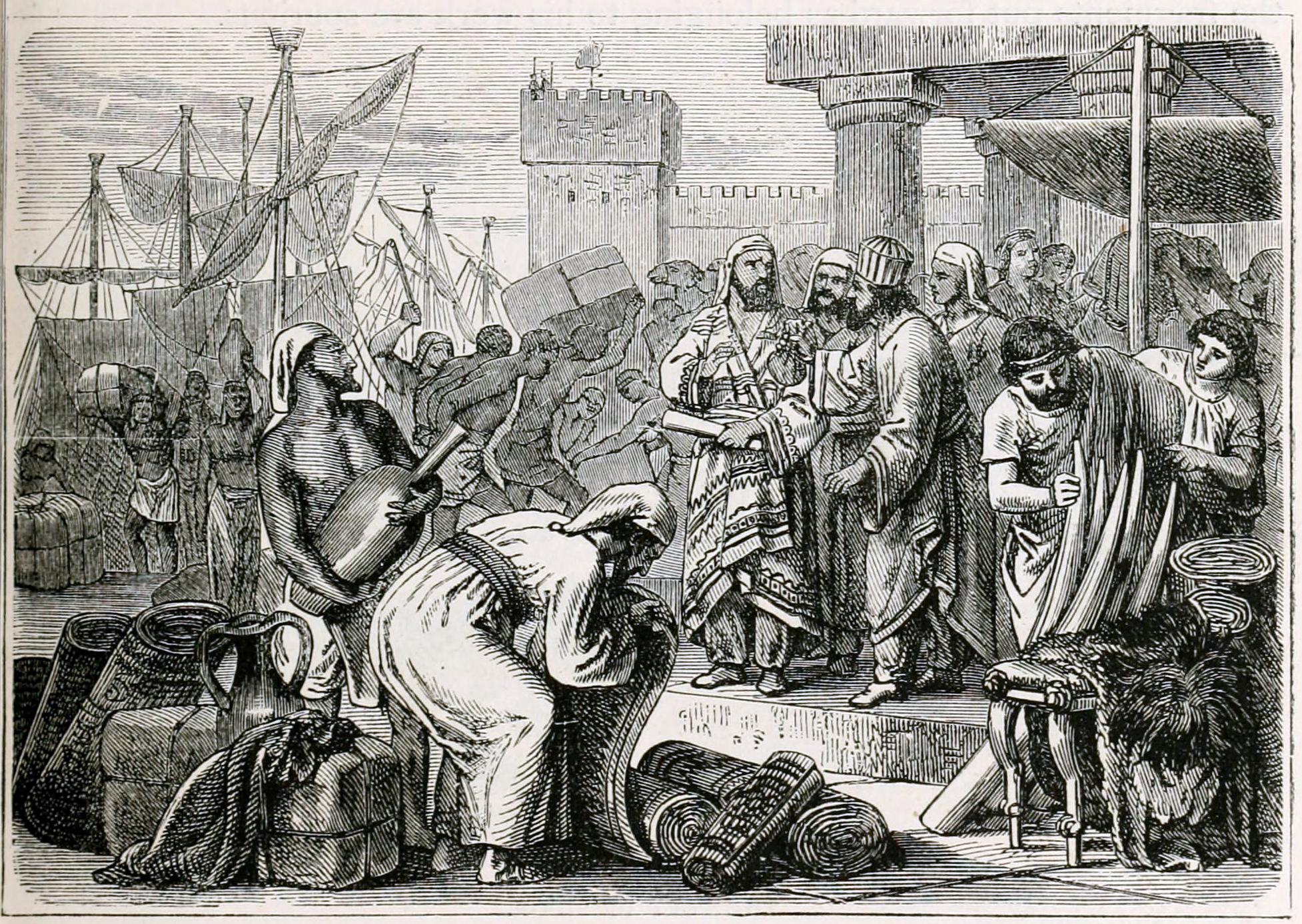 Volume 1 Publisher New York Ward, Lock Pages 928 Possible copyright status NOT_IN_COPYRIGHT The illustrated history of the world for the English people. From the earliest period to the present time, ancient-mediaeval-modern. With many original high-class engravings Published [1881?-84?] Topics World history SHOW MORE 26 Language English Call number AFU-0282 Digitizing sponsor MSN Book contributor Robarts - University of Toronto Collection robarts; toronto Scanfactors 9 Full catalog record MARCXML [Open Library icon]This book has an editable web page on Open Library.